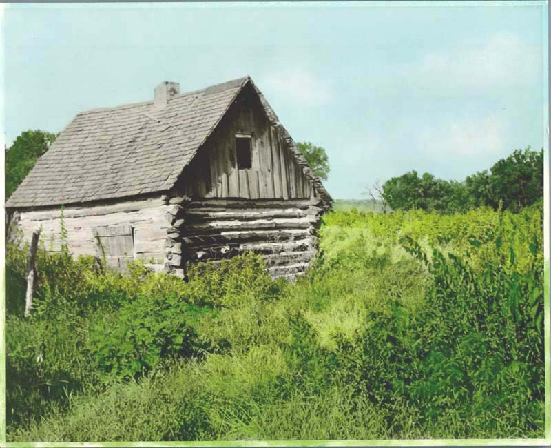 A log cabin built by George T. Inkster in 1878, which was the first white settlement in the area of what would become Inkster, North Dakota (USA). Photograph taken and hand-colored in the 1910s, according to the Library of Congress. Caption: "A two story log cabin, apparently abandoned, with a door and a small window showing. It has a pitched roof with shingles and a chimney. The cabin is surrounded by an overgrowth of weeds, bushes and trees." 154, R55. 1 3/4 miles north of Inkster" Gift; Verwest, Donna Jean 1969.